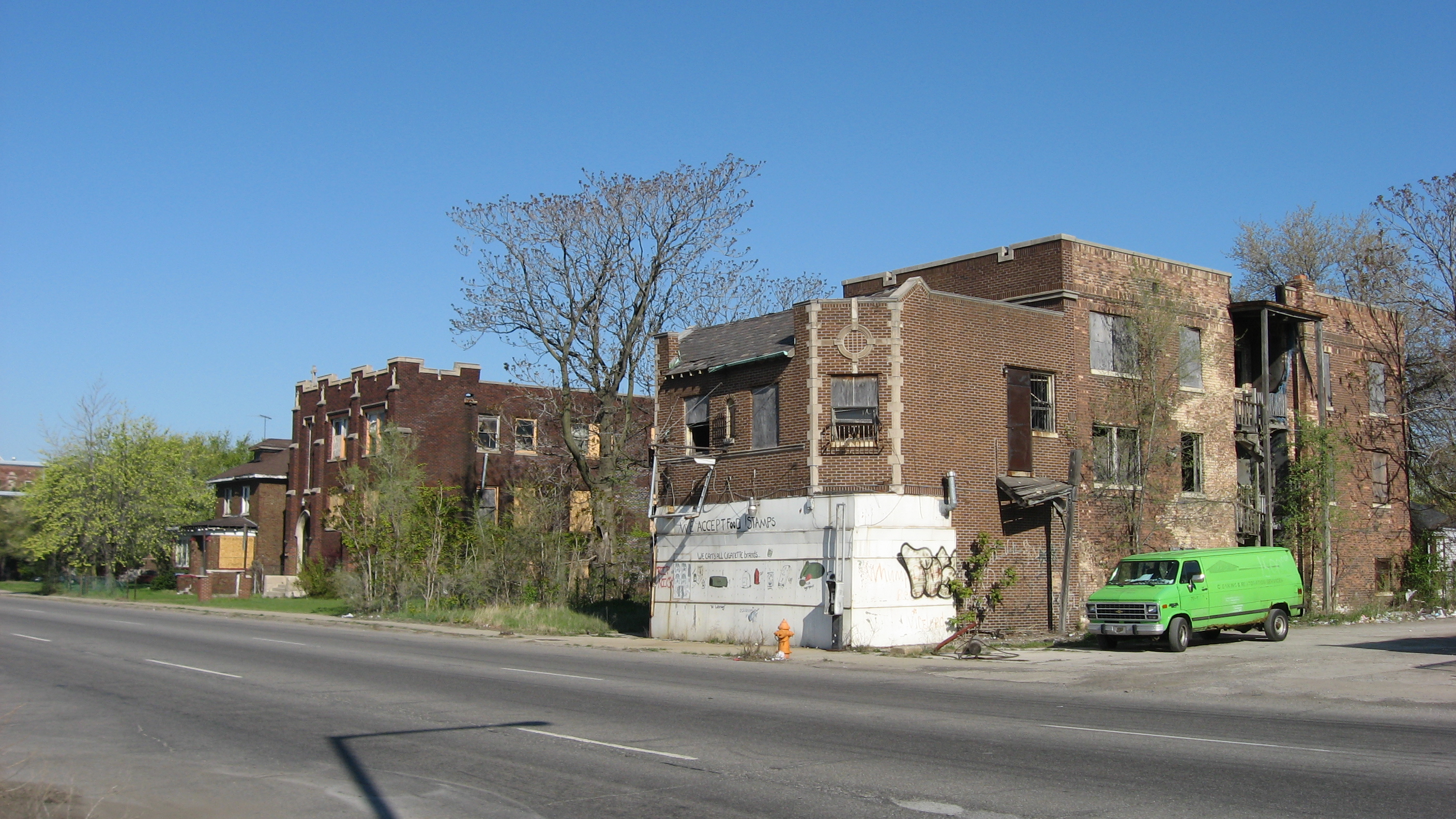 Looking westward along the 1300 block of Fifth Avenue (U.S. Routes 12/20) in western Gary, Indiana, United States. The buildings pictured are part of the West Fifth Avenue Apartments Historic District, a historic district that is listed on the National Register of Historic Places.